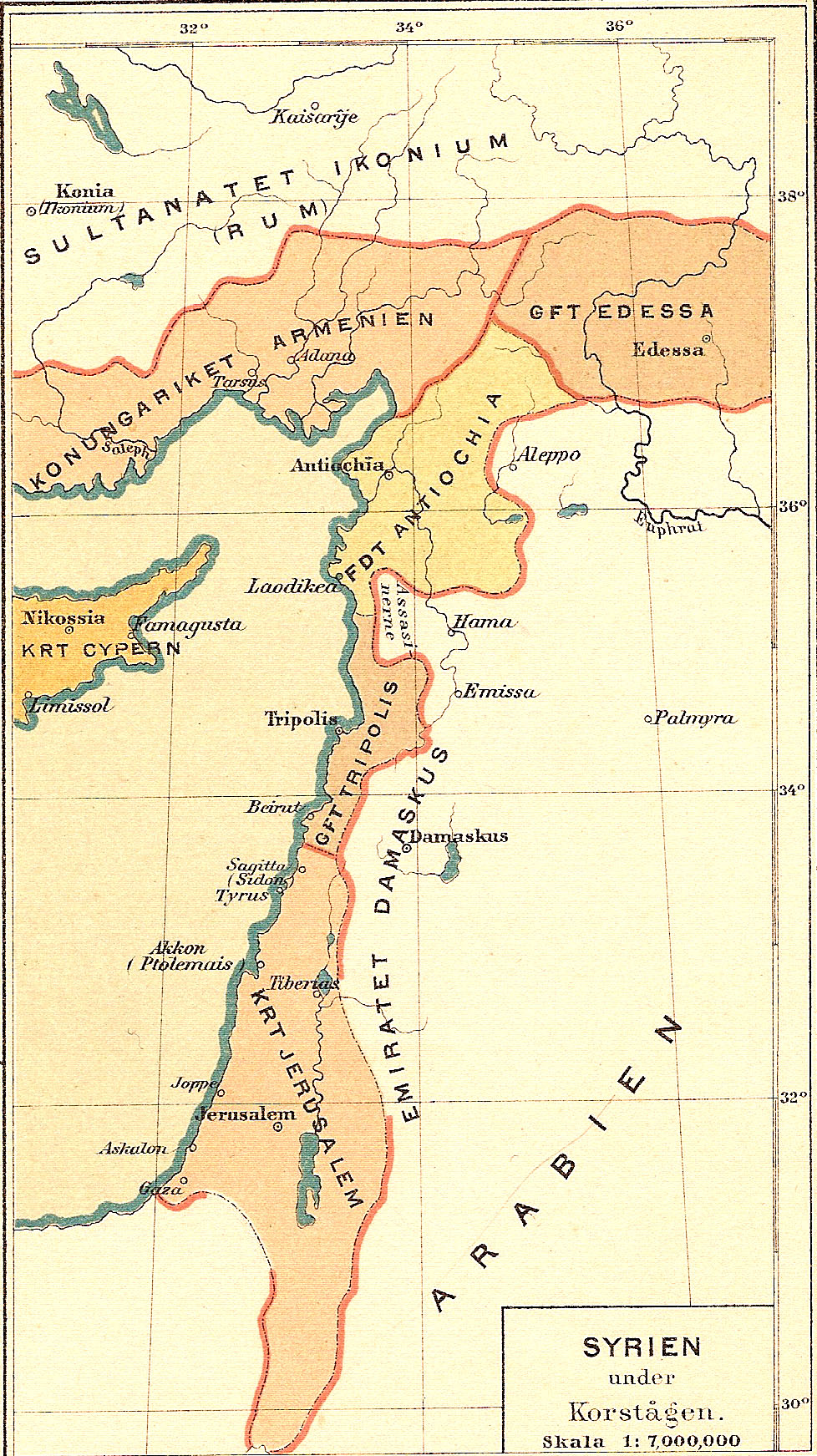 Historic map (swedish) of Syria during the crusades